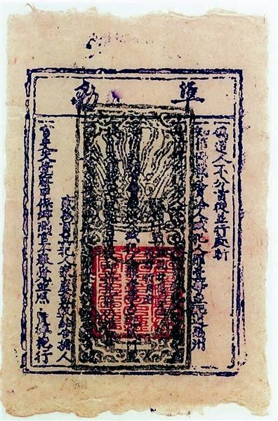 A modern reproduction of a (Southern) Song Dynasty era Guanzi banknote.